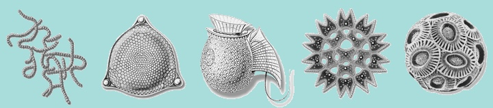 Phytoplankton types: Left to right: cyanobacteria, diatom, dinoflagellate, green algae, coccolithophore. Phytoplankton are extremely diverse, varying from photosynthesizing bacteria (cyanobacteria), to plant-like diatoms, to armor-plated coccolithophores (drawings not to scale).